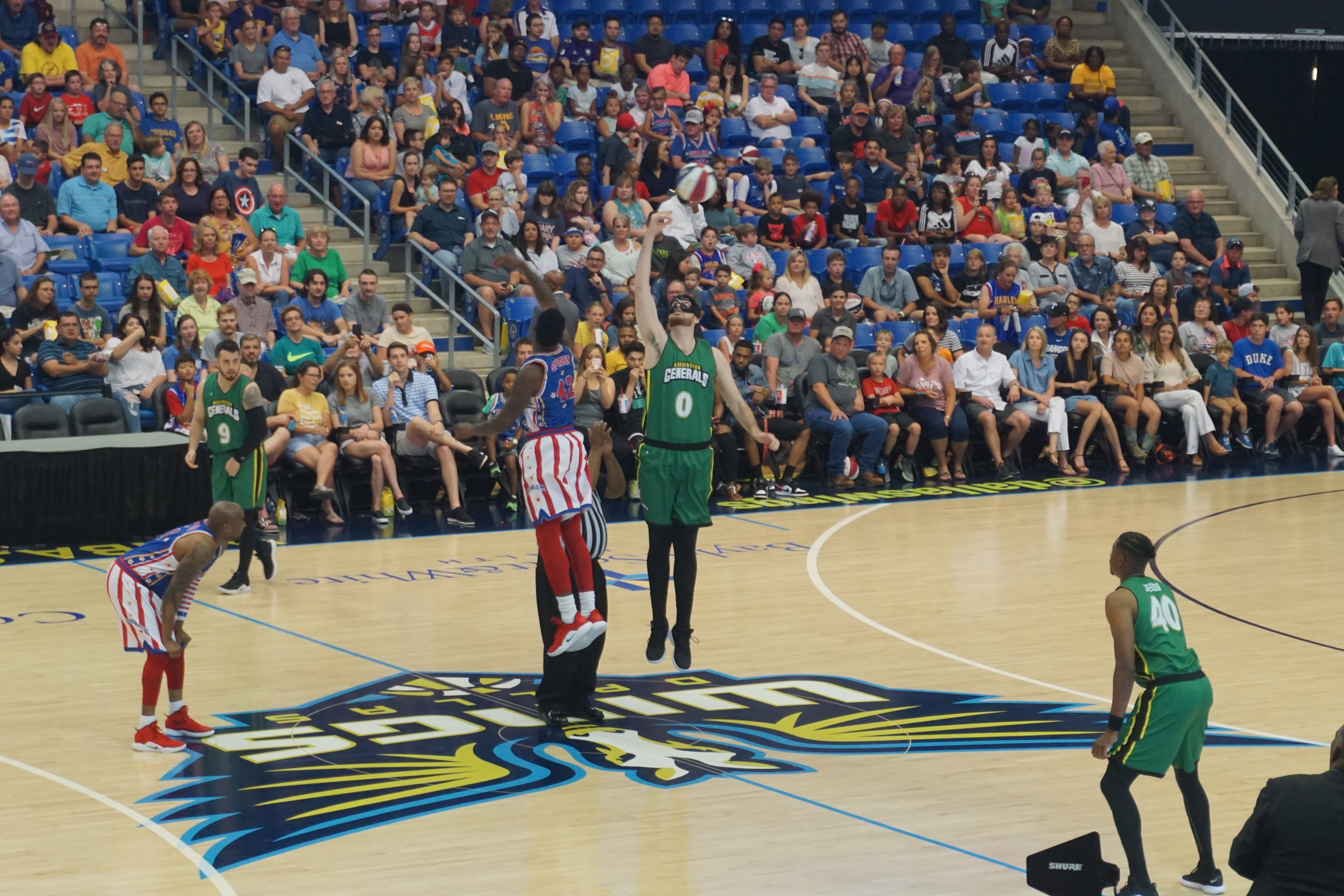 The opening tip of the Washington Generals vs. Harlem Globetrotters basketball game at College Park Center in Arlington, Texas (United States).